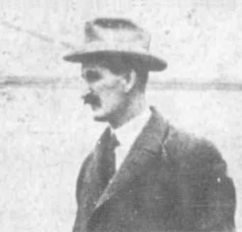 Hector Hercules Bell in 1924, at an event to test the Church Street Bridge. He was at the time a councillor on Richmond City Council, representing the council on the MMBW and HTT.